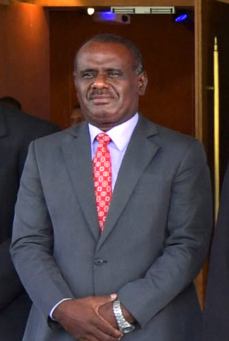 The President of Israel, Reuven Rivlin landed in Fiji, was welcomed on the island in a traditional ceremony and led a first summit meeting of the Pacific nation's. Thursday, February 20, 2020. Credit Photo: Kobi Gideon / GPO. President Rivlin leads historic summit meeting with Pacific Island states.